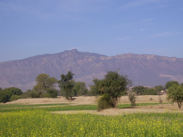 View from Jalal Pur Sharif in Pind Dadan Khan Tehsil to Tilla Jogian